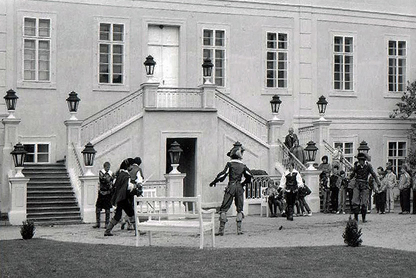 Historical fencing